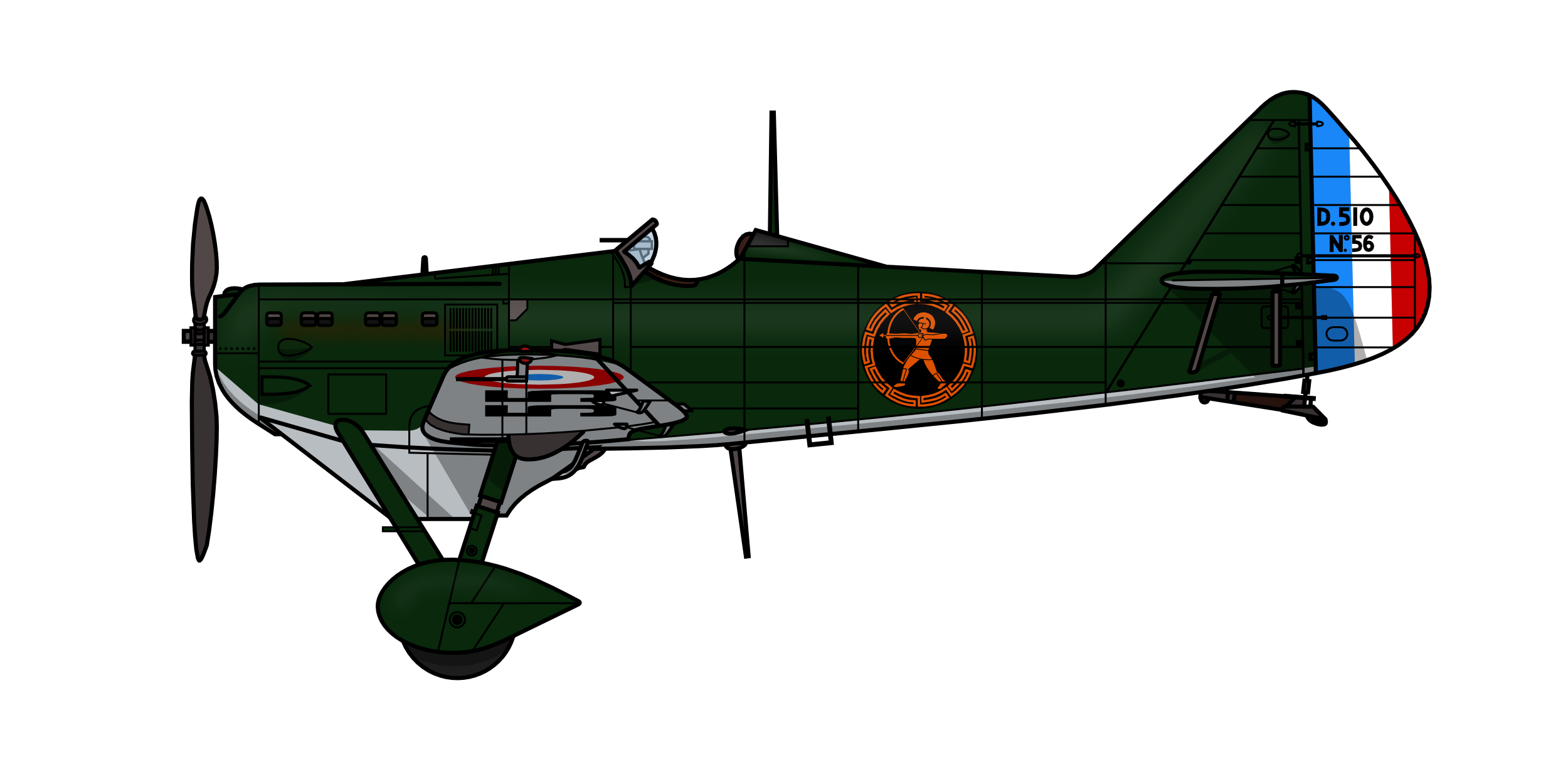 Profile of Dewoitine D.510 number 56 (R-055). This aircraft was built as one of the D.510 prototypes, but was later modified with the same undercarriage, tail and MAC wing weapons as standard production aircraft and entered service with 1re Escadrille, GC I/1.